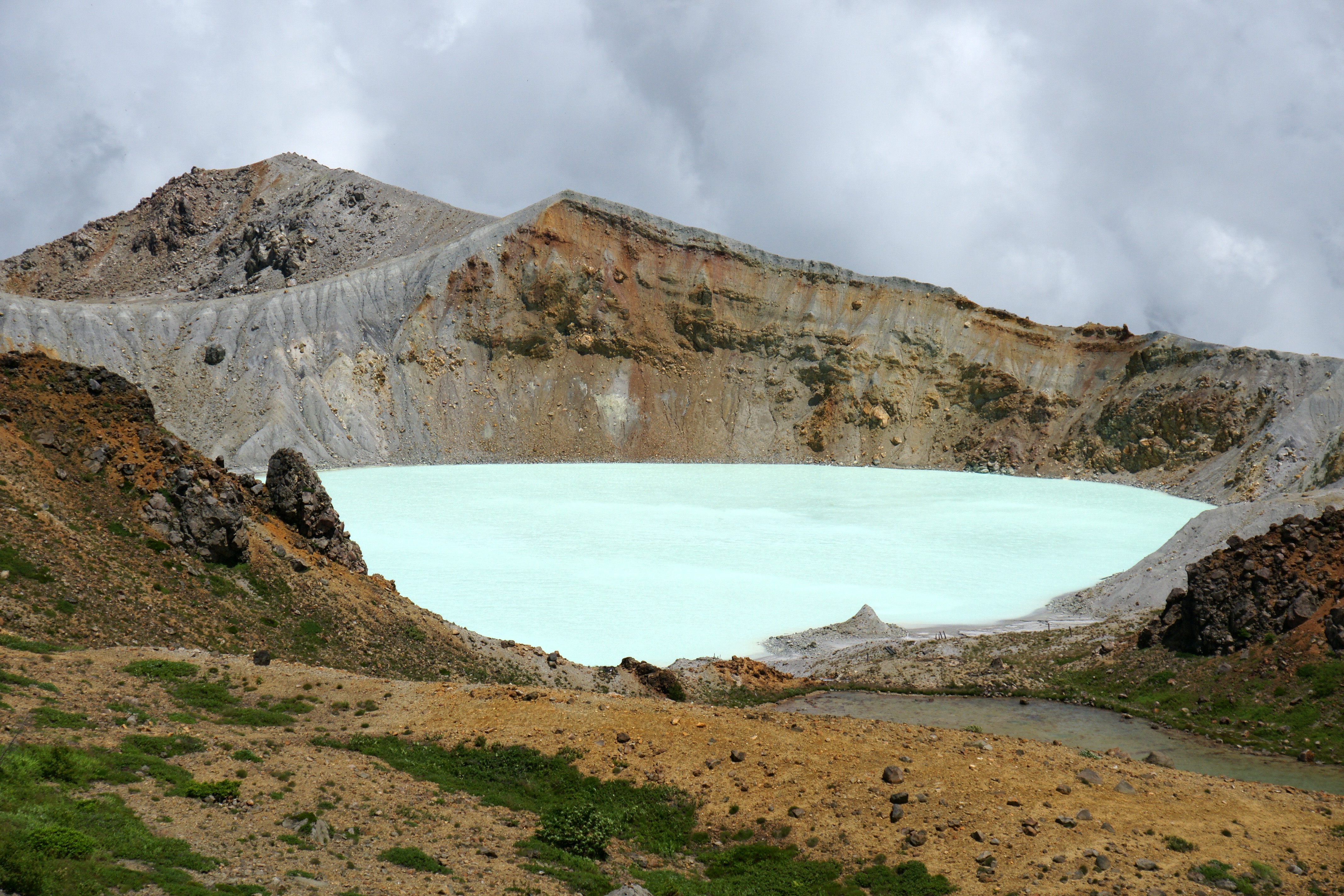 Mount Kusatsu-Shirane, Kusatsu, Gunma prefecture, Japan